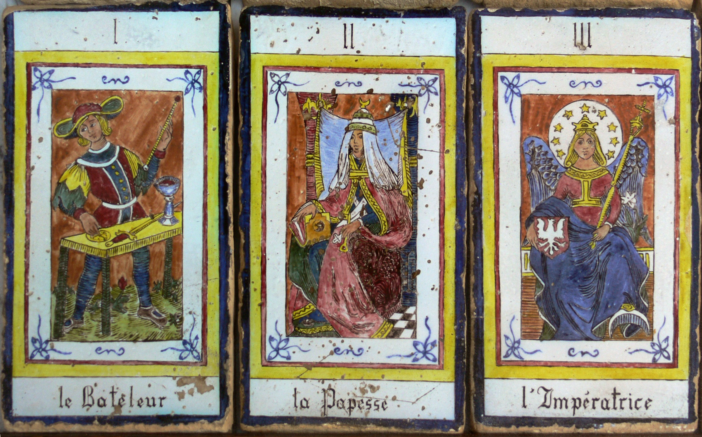 Bateleur, Papesse, Impératrice (Busker, Popesse, Emperess), three tiles of a set of tarot cards in tile form